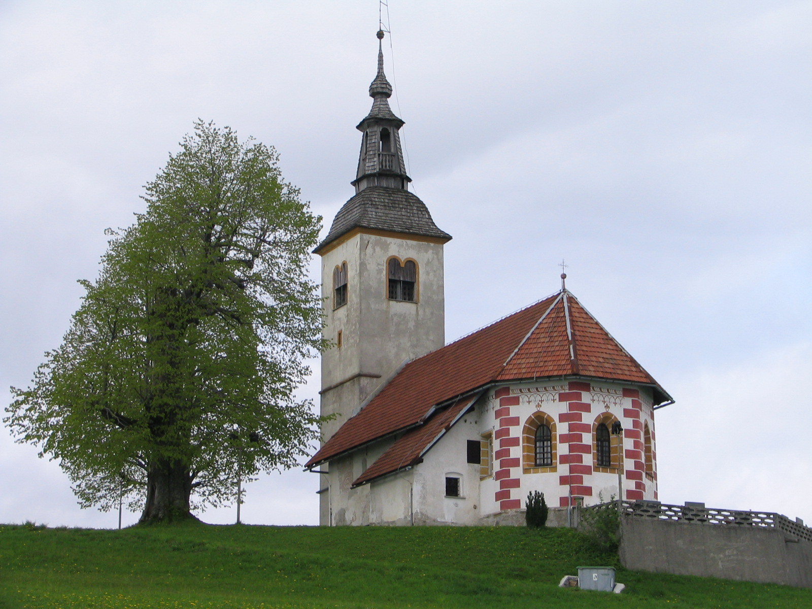 The Church of Saints Hermagoras and Fortunatus in Koreno nad Horjulom, Inner Carniola region of Solvenia